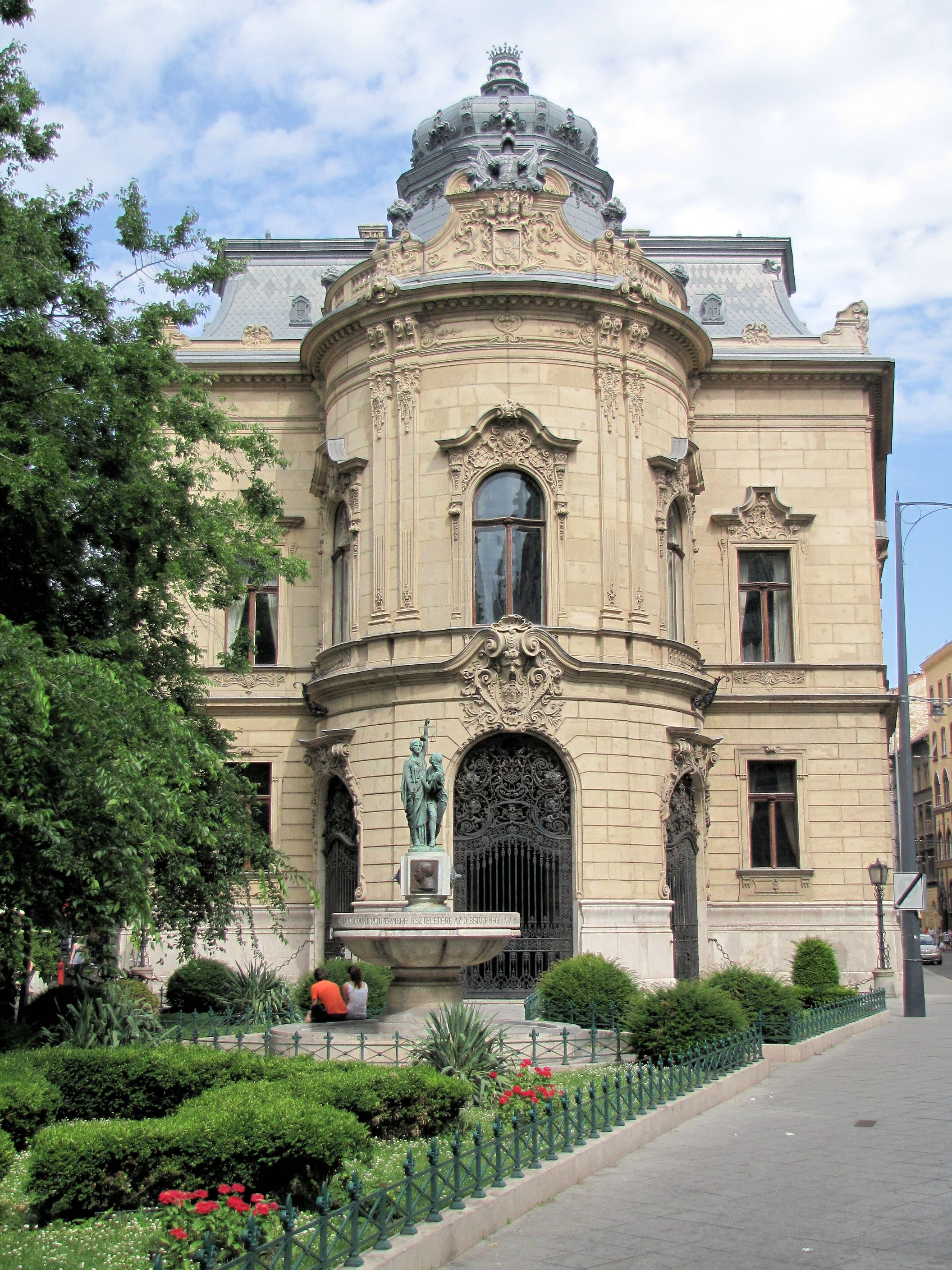 Former Wenckheim Palace, today, Metropolitan Ervin Szabó Library, Budapest.